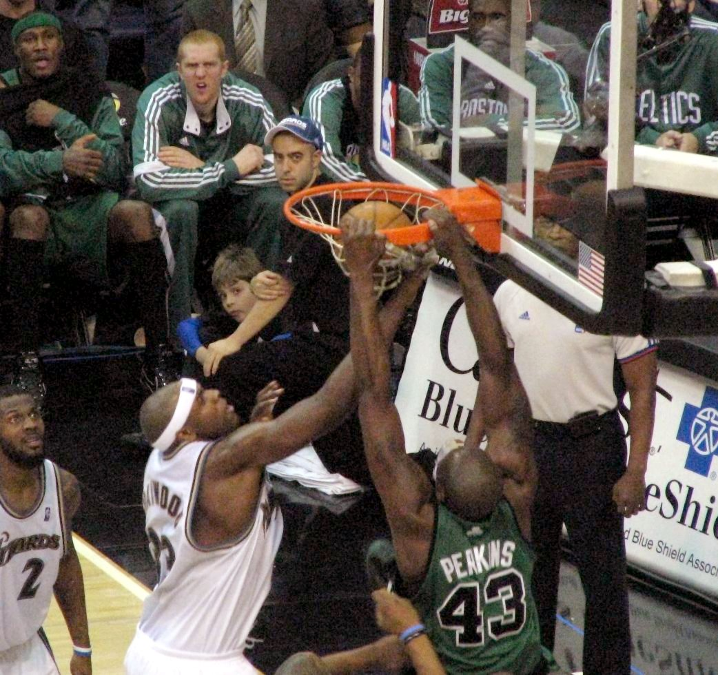 Kendrick Perkins (Boston Celtics) dunking over Brendan Haywood (Washington Wizards)